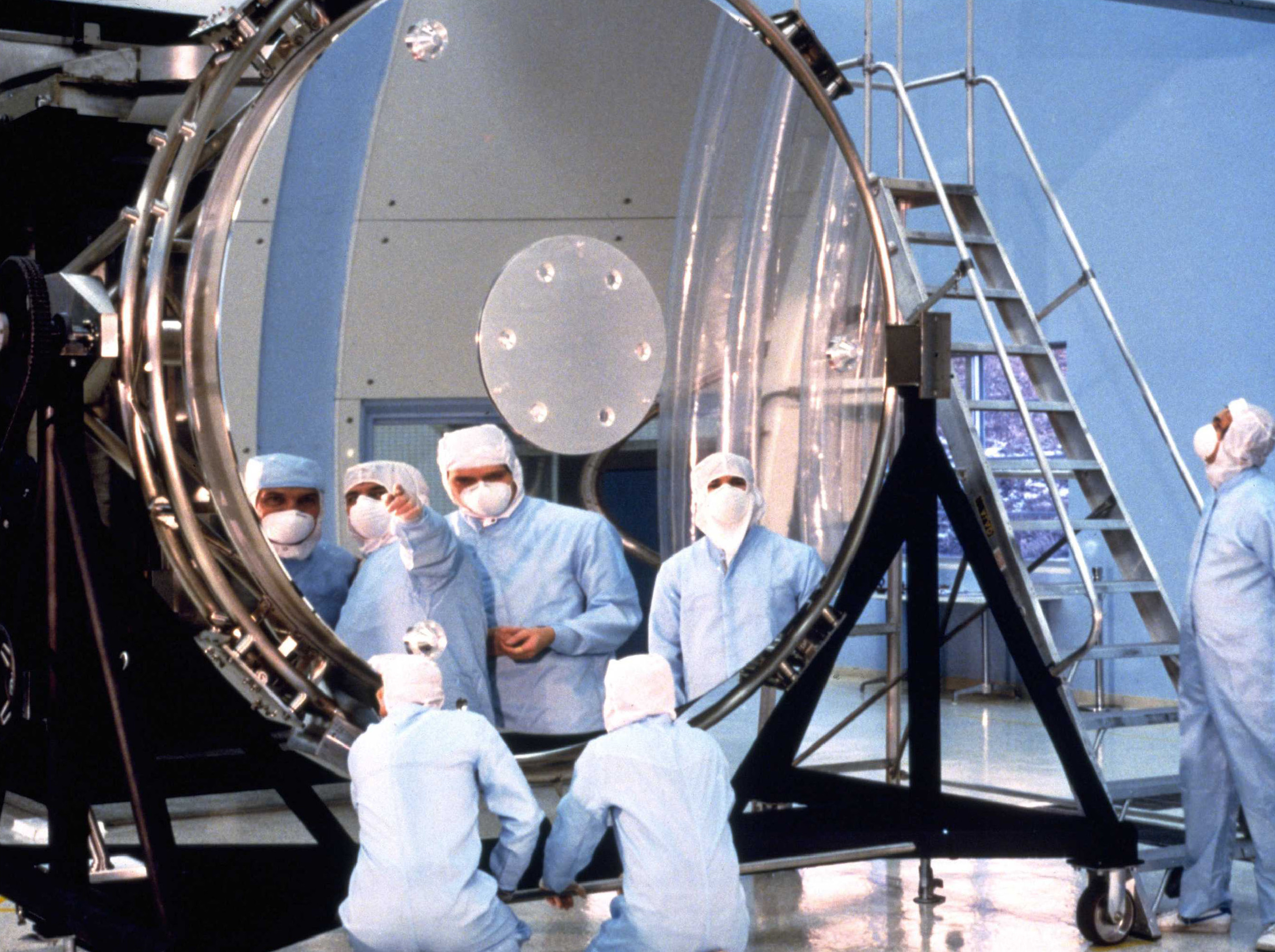 Working on Hubble's Main Mirror (1990) Workers study Hubble’s main, eight-foot (2.4 m) mirror. Hubble, like all telescopes, plays a kind of pinball game with light to force it to go where scientists need it to go. When light enters Hubble, it reflects off the main mirror and strikes a second, smaller mirror. The light bounces back again, this time through a two-foot (0.6 m) hole in the center of the main mirror, beyond which Hubble’s science instruments wait to capture it. In this photo, the hole is covered up.